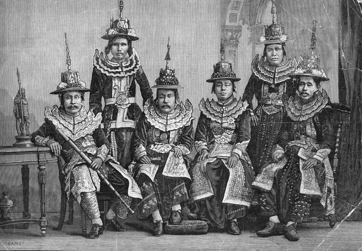 Burmese ambassadors at Calcutta in 1882.